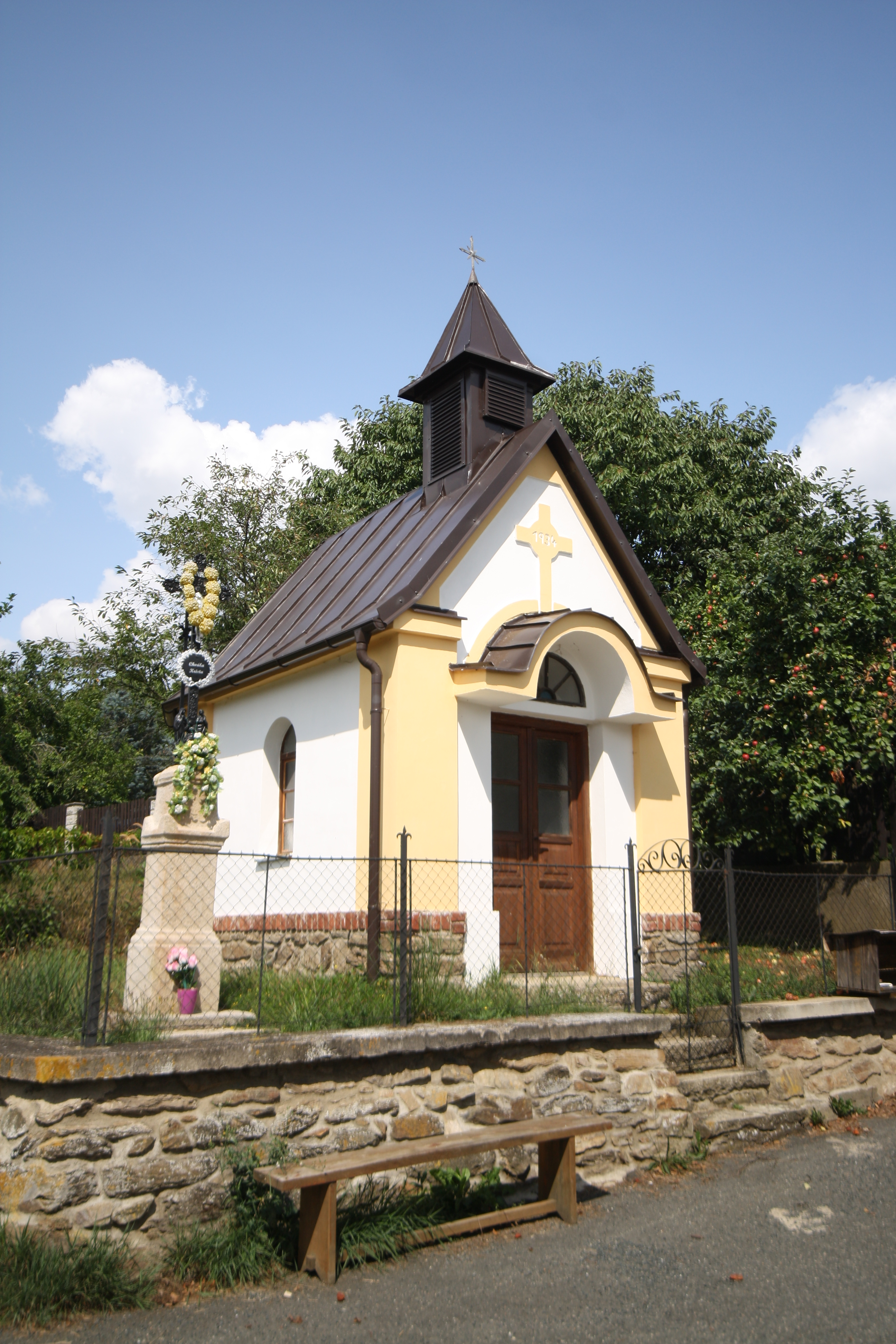 Chapel in Píšť, Pelhřimov District.